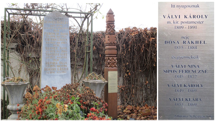 Grave of Károly Vályi (1809–1891)